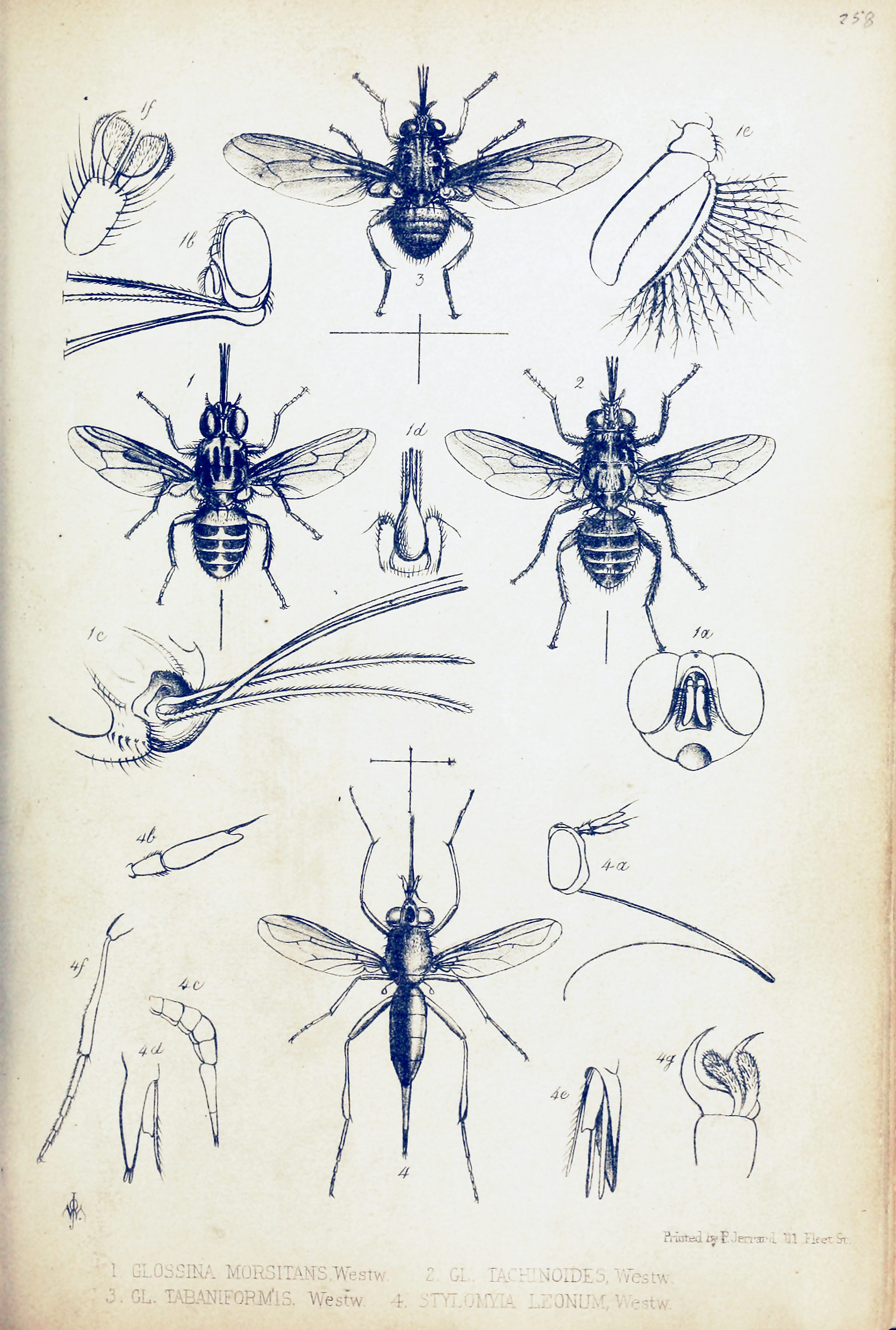 Savannah (1), riverine (2) and forest (3) tsetse flies, and a thick-headed fly species (4).